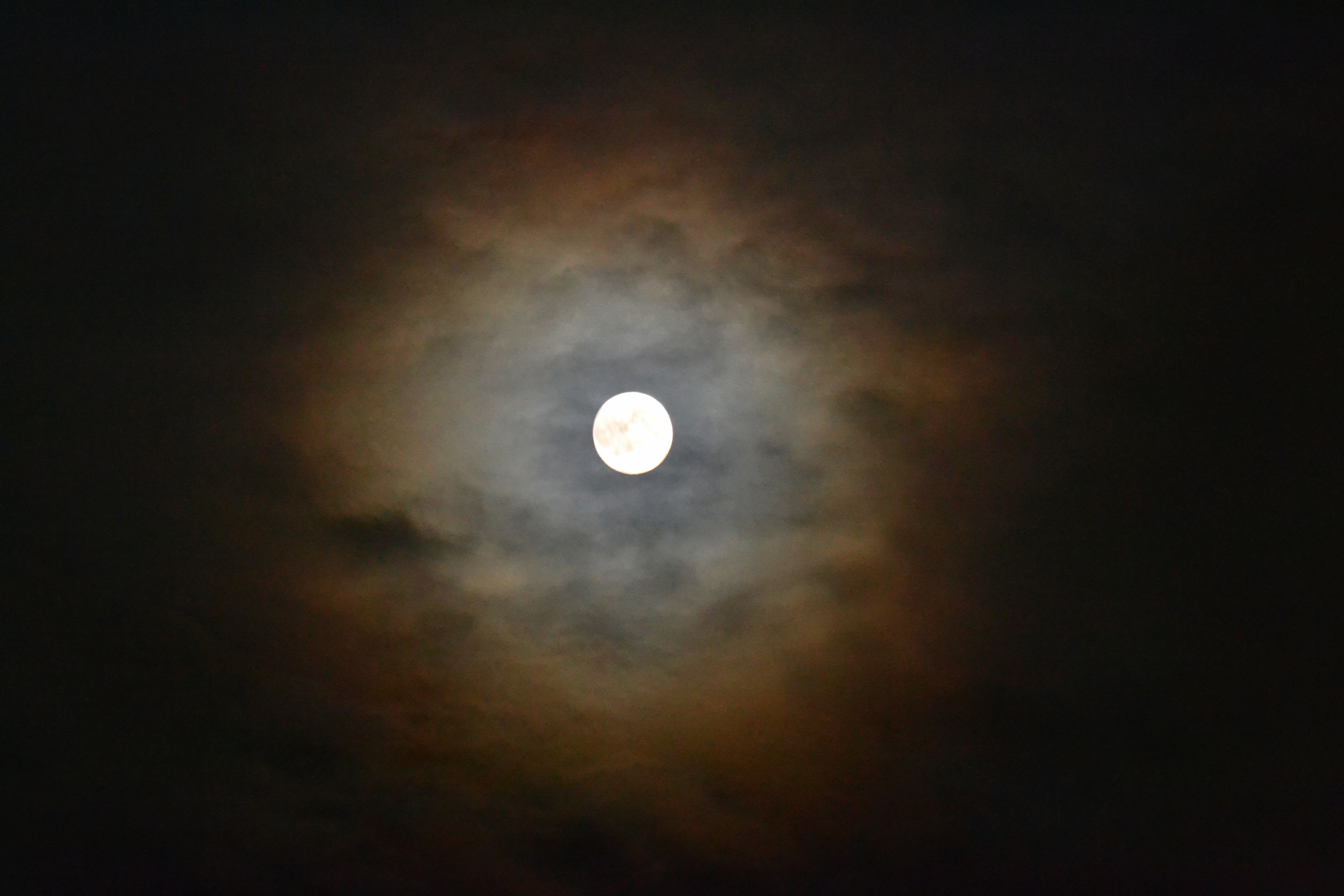 Last nights moon and cloud cover - nice, natural effect.